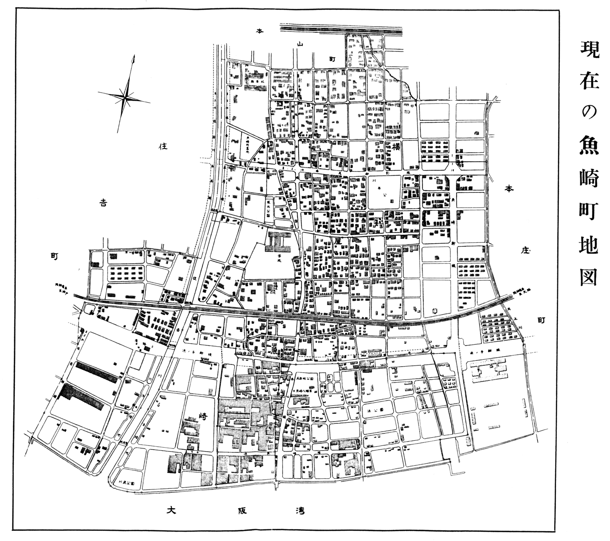 Map of Uozaki, Hyogo, Japan(1957). Uozaki-cho shi(1957)